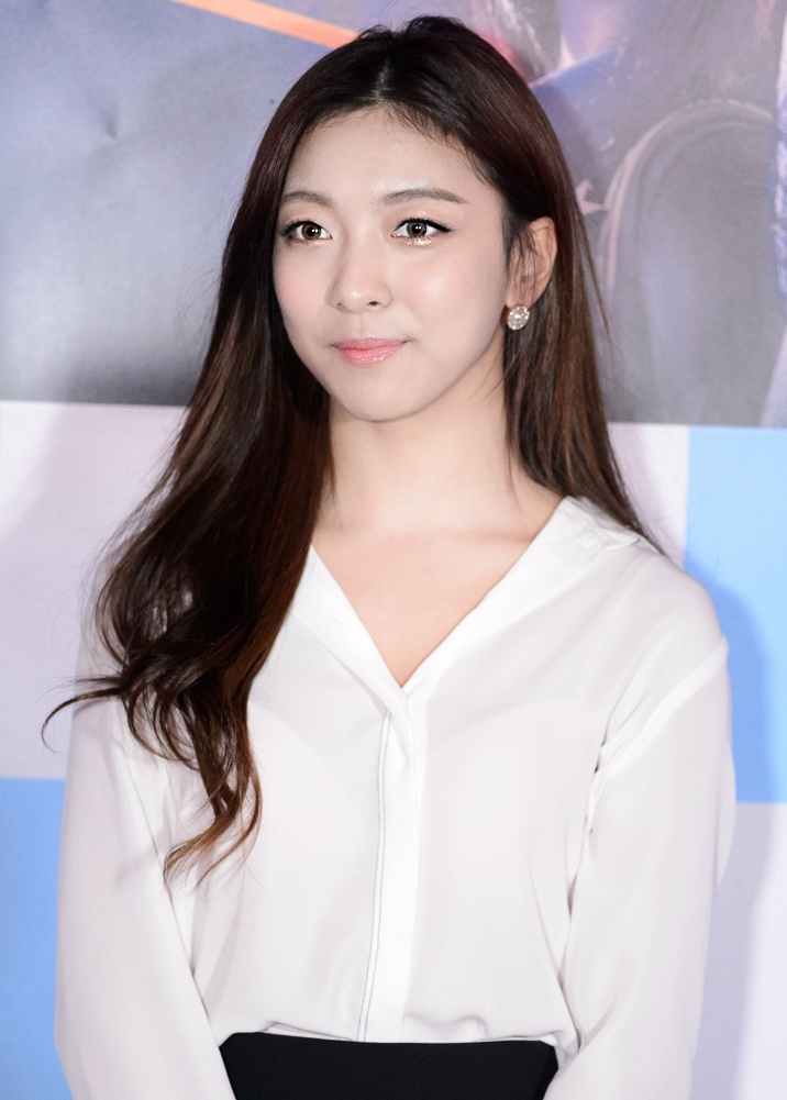 Luna at The Lightning Man's Secret VIP premiere in February 3, 2016.